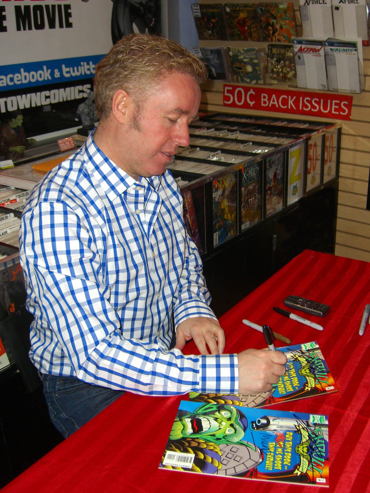 Scottish comics writer Mark Millar at an April 25, 2013 signing at Midtown Comics in Manhattan for his miniseries, Jupiter's Legacy, which debuted the day prior. In the photo, Millar is signing a copy of one of his previous works, Skrull Kill Crew. This photo was created by Luigi Novi. It is not in the public domain, and use of this file outside of the licensing terms is a copyright violation.